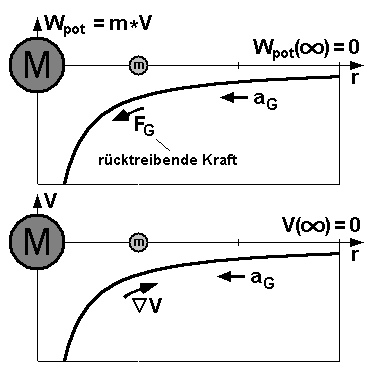 Potential energy Wpot of a small mass m in the surrounding of a larger central mass M, and potential V of its gravitation field